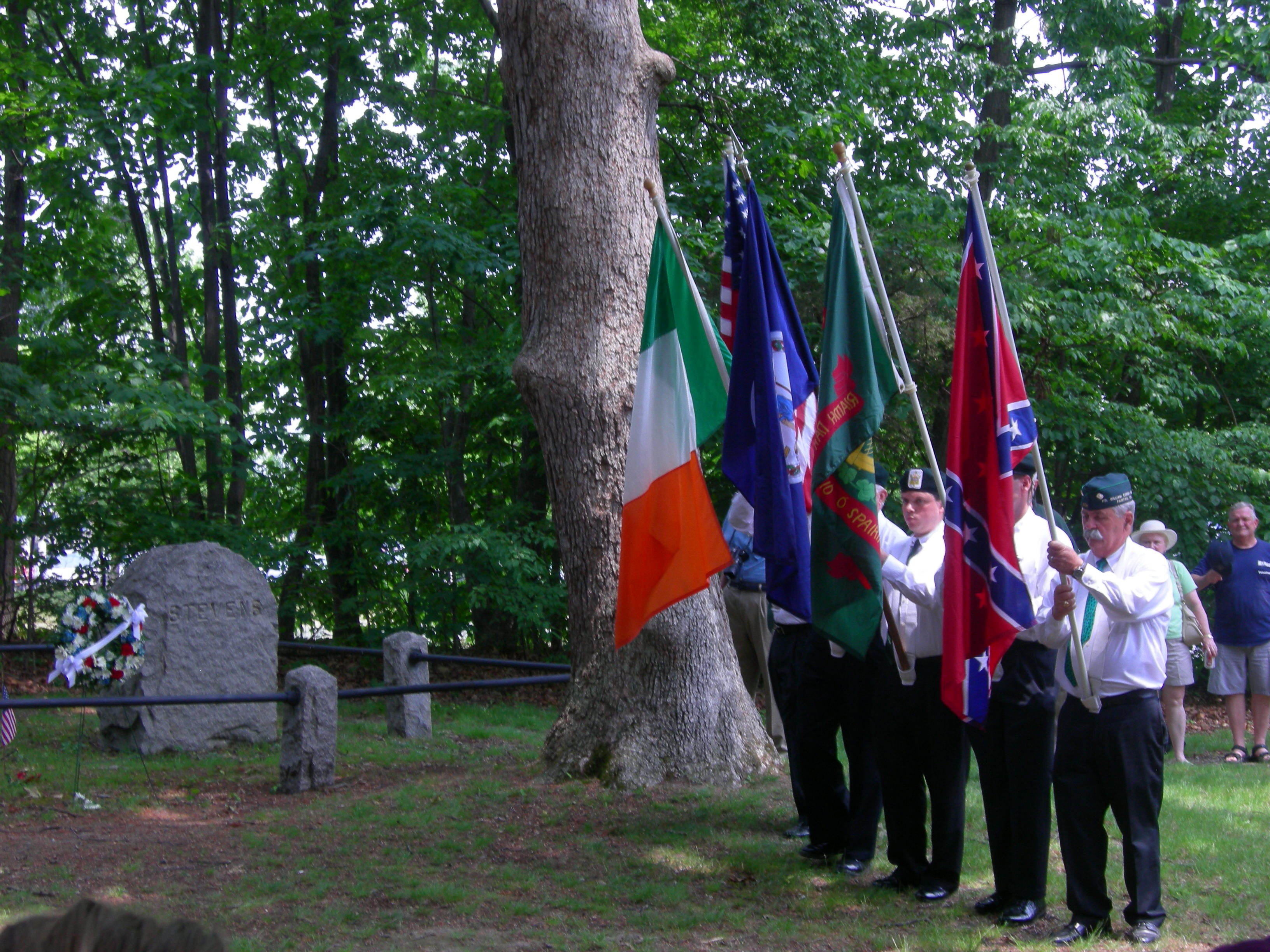 Color guard as part of ceremony at Ox Hill Battlefield Park on Memorial Day 2007.